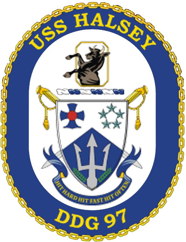 Emblem of the USS Halsey (DDG-97)